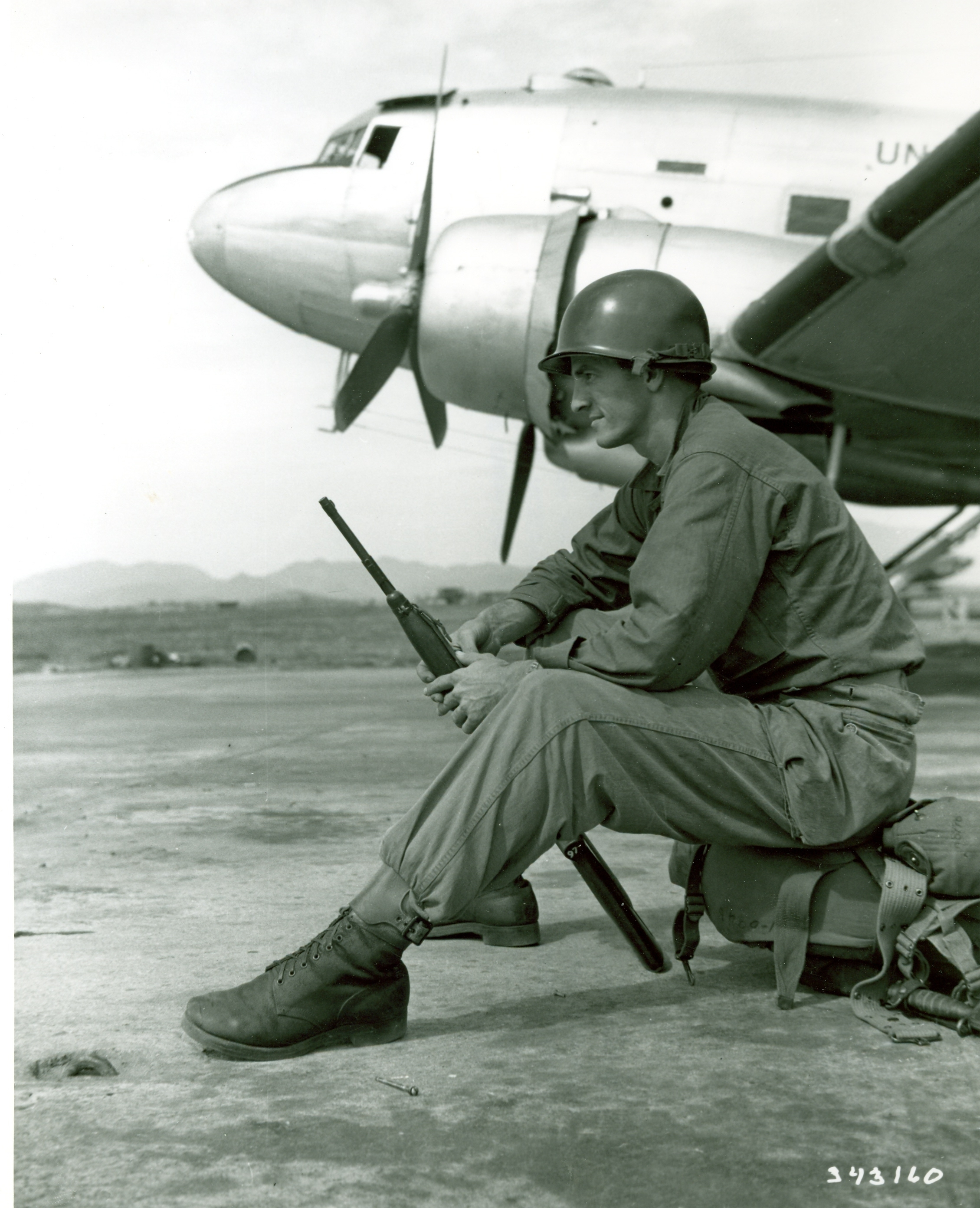 Corporal Tony Viator of New Iberia, Louisiana, member of the Division Headquarters, 24th Infantry Division, waits for orders to board a C-47 plane at Ashiya Air Force Base for the battle front in Korea.